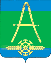 Coat of arms of Aleksandrovski (Ust-Labinsk, Krasnodar, Russia).